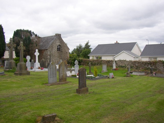 Hugginstown graveyard, Co. Kilkenny. The building on the left fronts onto the road and could be a former school. The row of bungalows was opened by Bertie Ahern 1-Sep-2005. The roofles church in the graveyard has a sign '1800-1983, preserved 2001'. It is a T-plan 'barn' Roman Catholic church, said to be the most interesting and attractive example of its date in the county. The modern RC church, built in 1983, is nearby on the other side of the road.